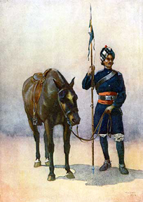 19th Lancers (Fane's Horse). Watercolour by Maj AC Lovett, 1910. Published in MacMunn & Lovett, Armies of India, 1911.